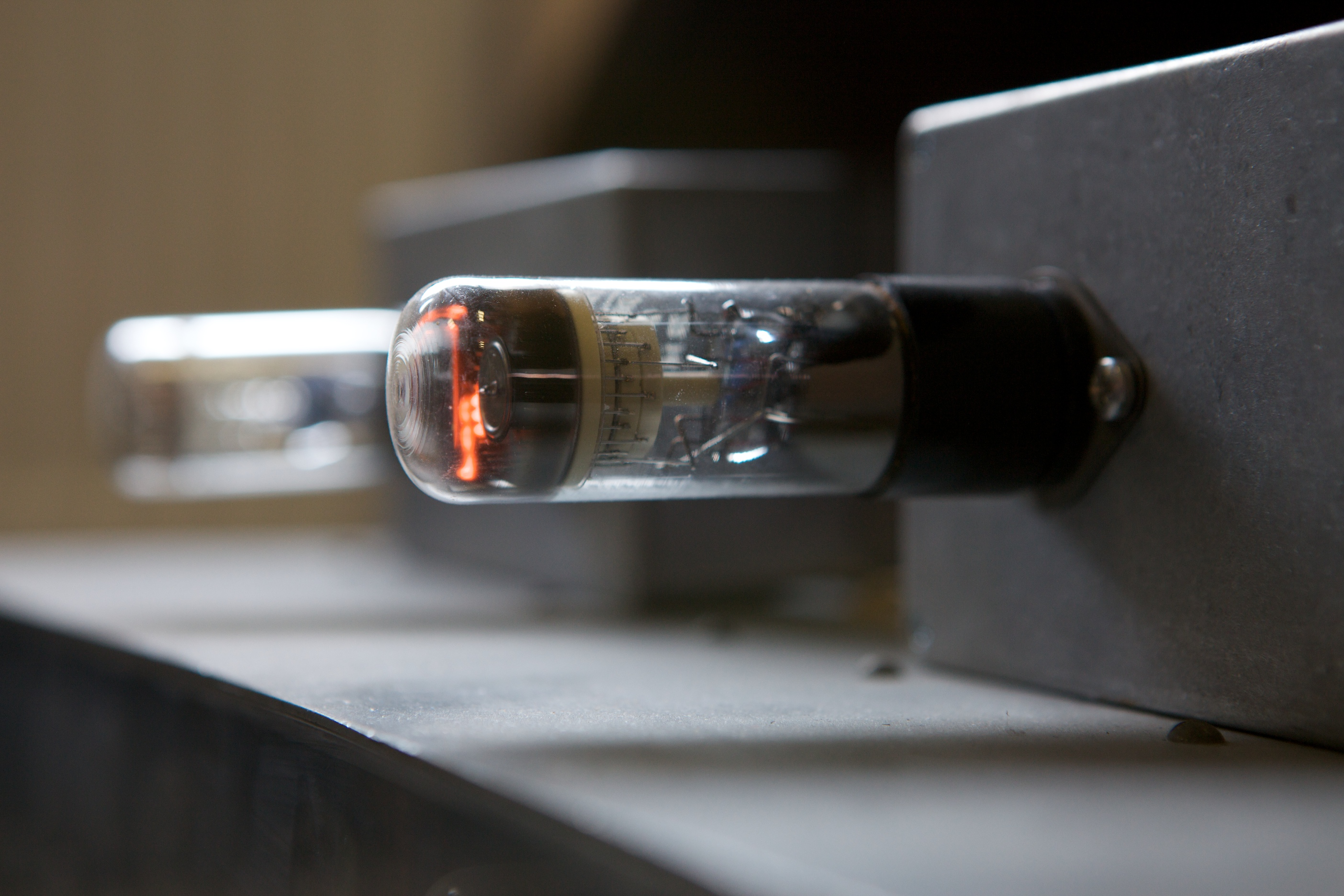 Photographs of the Harwell-Dekatron Computer, also known as WITCH. Taken at the National Museum of Computing at Bletchley Park, UK.